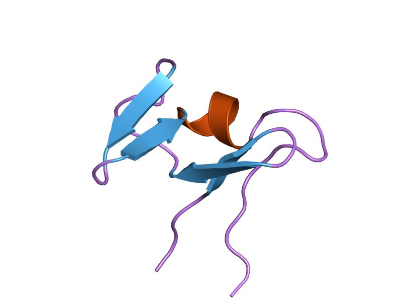 Cartoon representation of the molecular structure of protein registered with 1qld code.